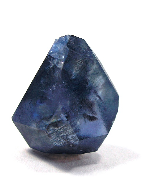 Benitoite Locality: San Benito County, California, USA (Locality at ) Size: thumbnail, 1 x 0.9 x 0.6 cm Benitoite (5 carats) This is a single, translucent, dark blue, benitoite crystal with fine luster. It has large gemmy areas. Given the weight, its a certainty that you could cut stones from this and make a buck (probably worth $1500-2000 cut up) but I prefer to leave it as an unusually fine loose gem crystal! It has EXCEPTIONAL lustre and rich blue color!